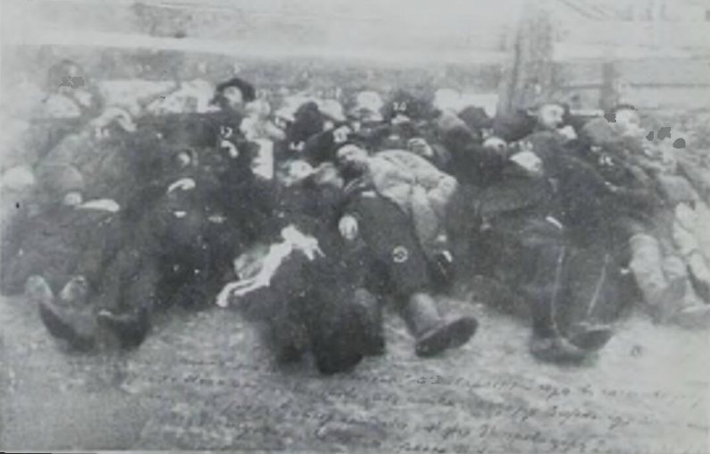 Corpses of Jews slaughtered by Ukrainian nationalist bands in the February 1919 pogrom in Ovruch.